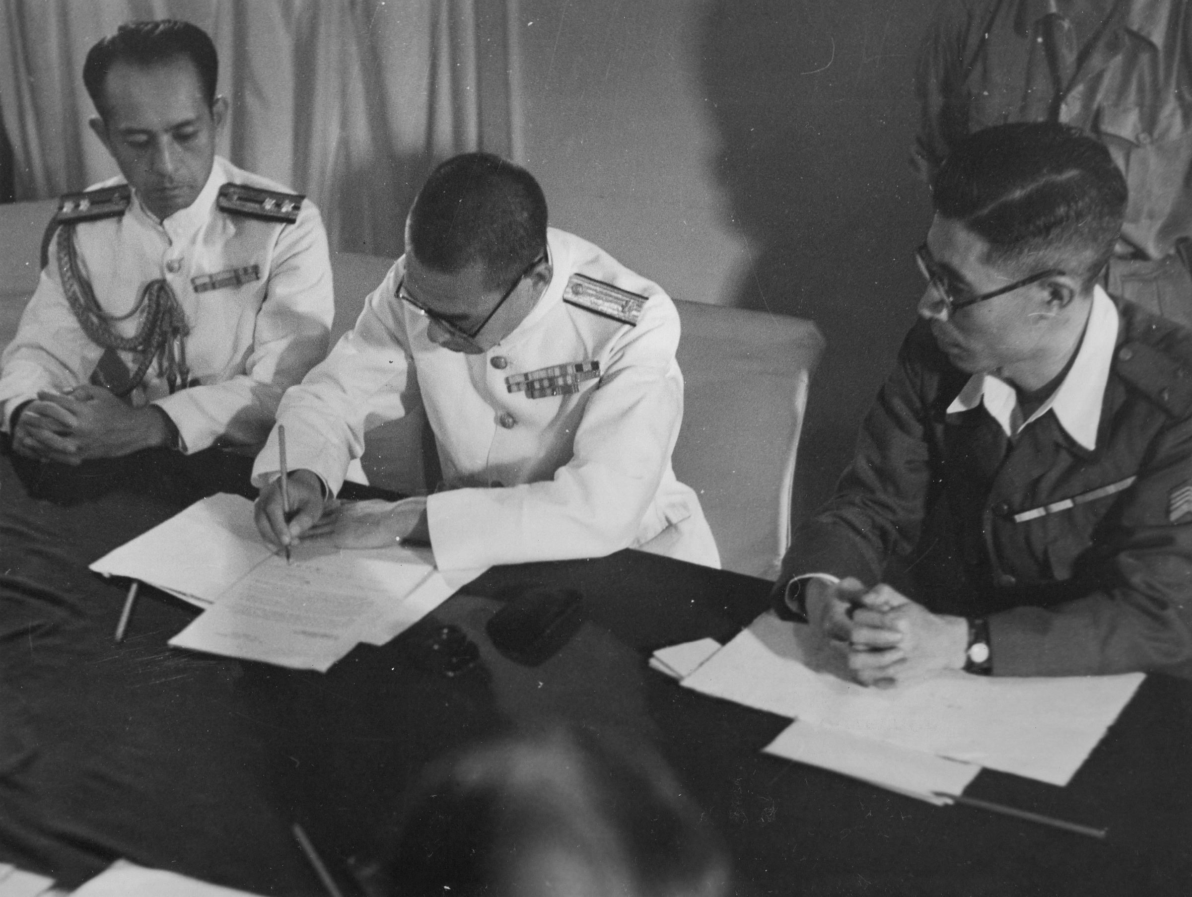 Rear Admiral Bazudi, Commander of Japanese forces, Penang, signs the surrender document watched by the Japanese Lieutenant Governor of Penang (right) and the Admiral's chief of staff, Captain Hidaka.